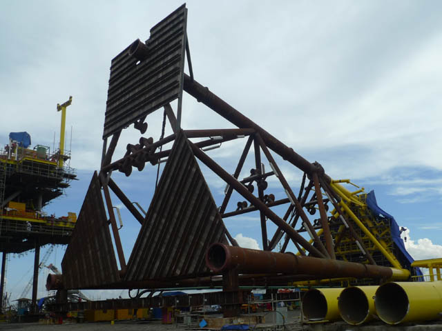 Tripod Topaz Jacket. A project of PCVL on PTSC site.